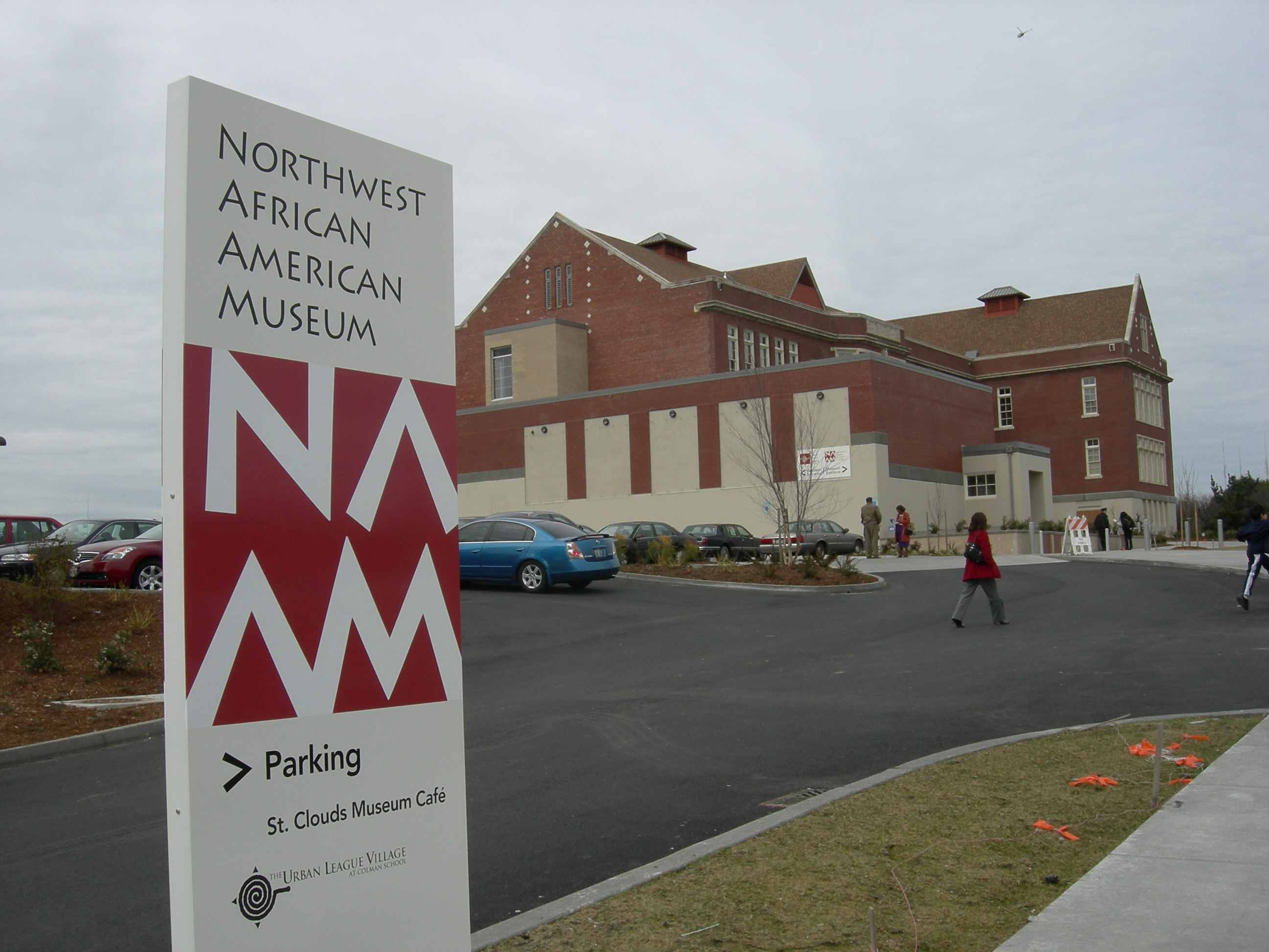 Northwest African American Museum (the former Colman School), Jimi Hendrix Park, Seattle, Washington.